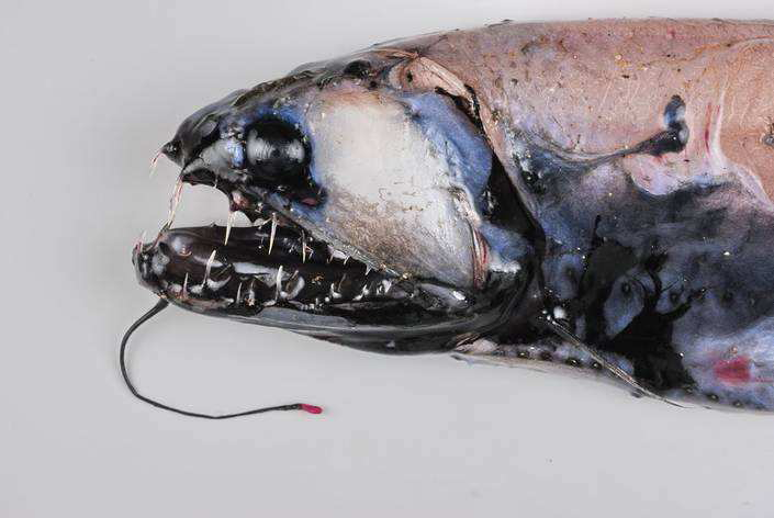 A new Antarctic species of Astronesthes discovered in 2008.